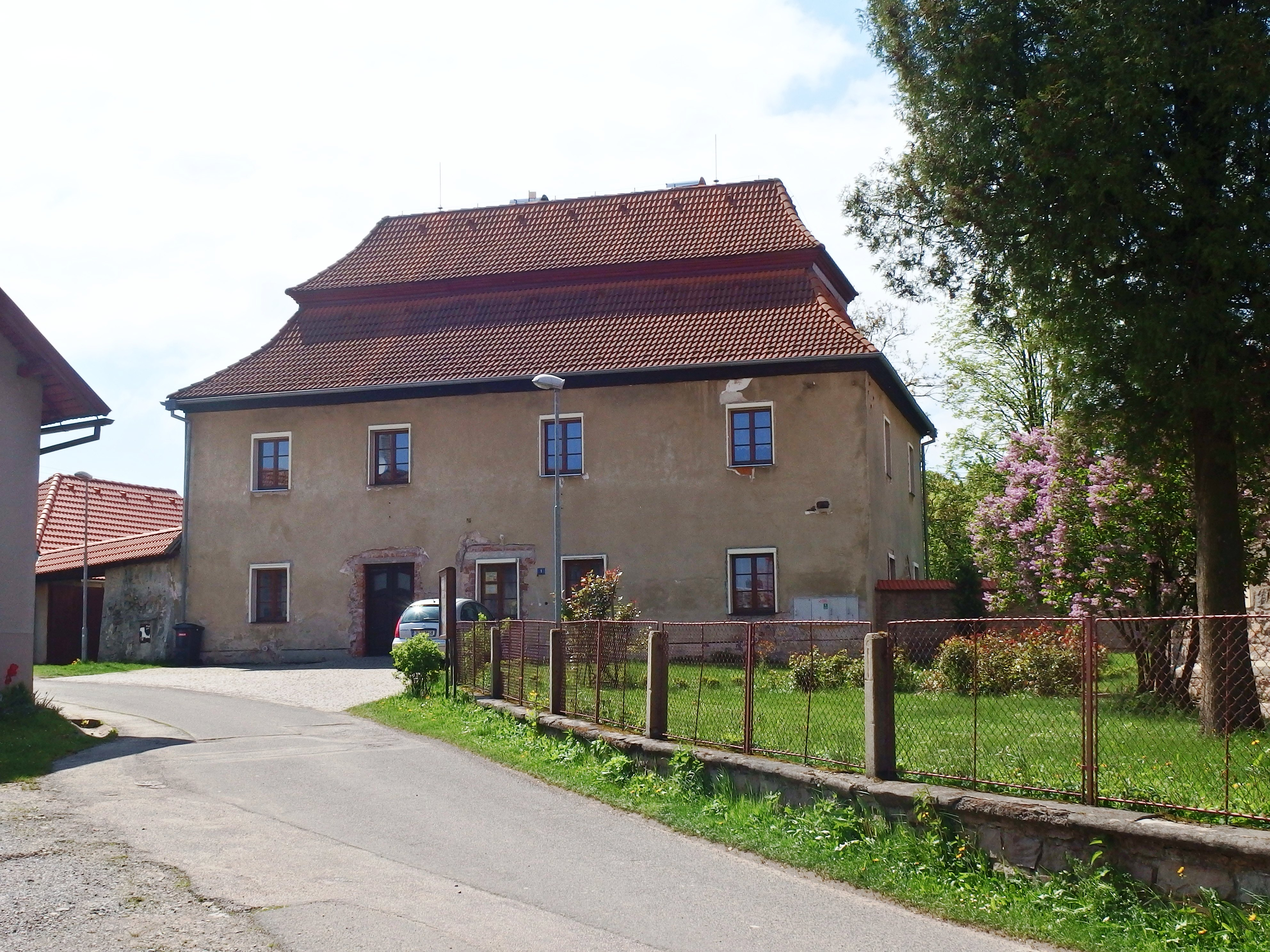 Proseč, Chrudim District, Czech Republic. Rectory.